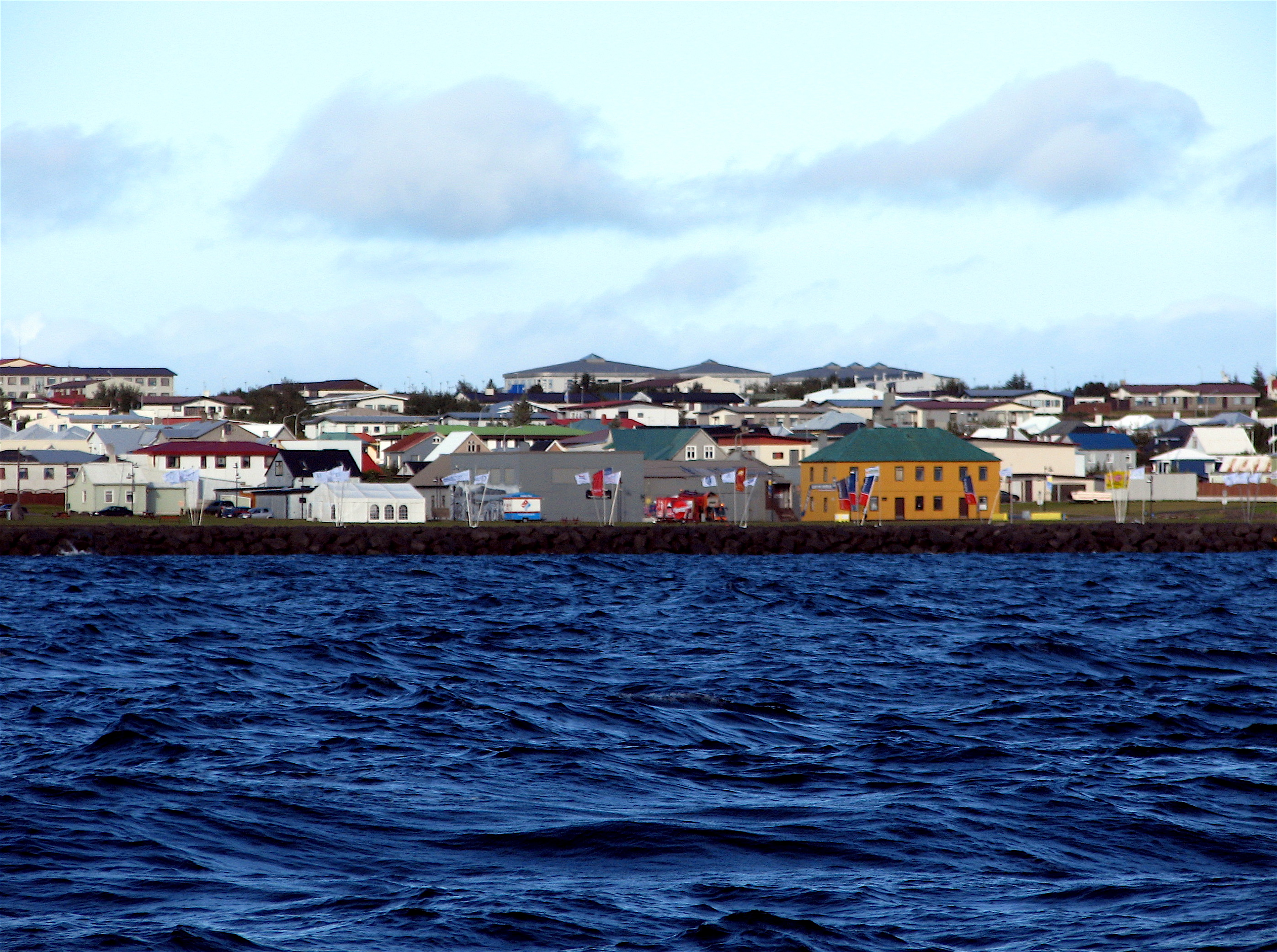 Keflavik town from the harbor.